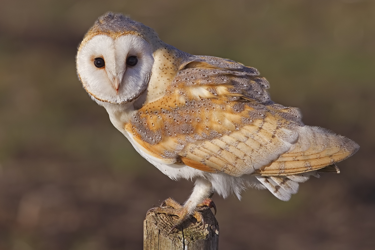 Decided to drop in at my local spot to see if i could get some Barn Owl action after work as the light was nice.. The owl hunted the banks about 100 metres from me, where i was shooting into the light at the time and eventually after 30 mins worked its way to me and flew past the back of the Auto hide and landed on a post no more than 10 meters away i couldn't believe it!!! Now it had full sun on it (hardly cropped at all). Took 6 shots and he was off. Heart has only just calmed down. It pays to stay in the van. I have been to this spot for a few weeks now waiting to catch him so the waiting game paid off. Wish i didnt have the 1.4x convertor on now to give a bit more breathing space.